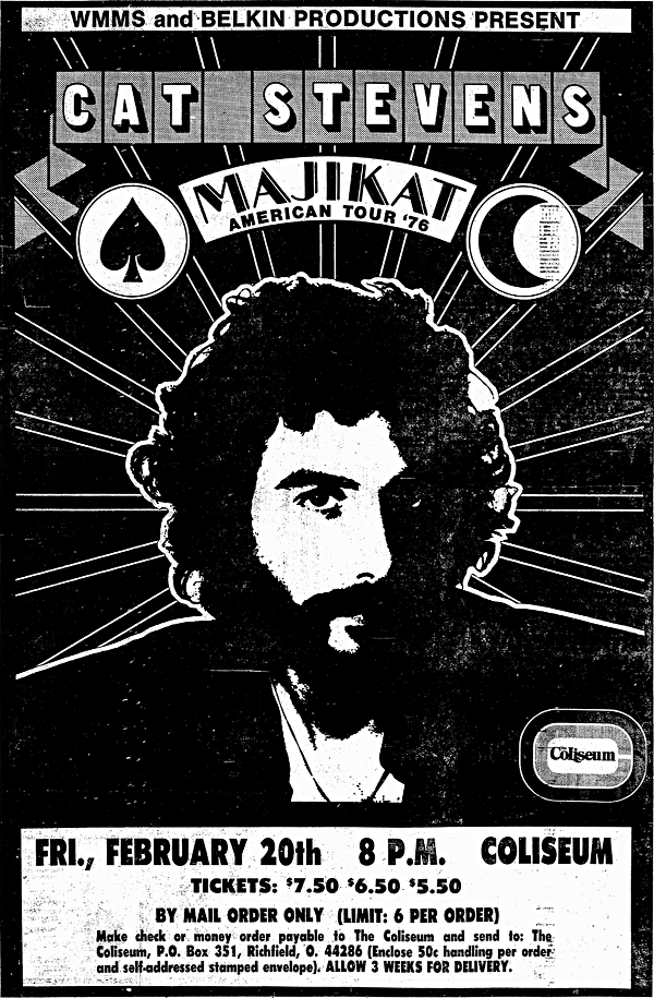 Print ad for Cat Stevens concert